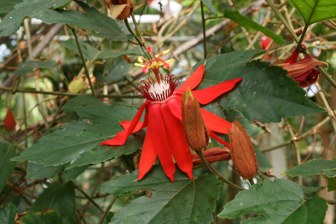 Passiflora vitifolia: Flower